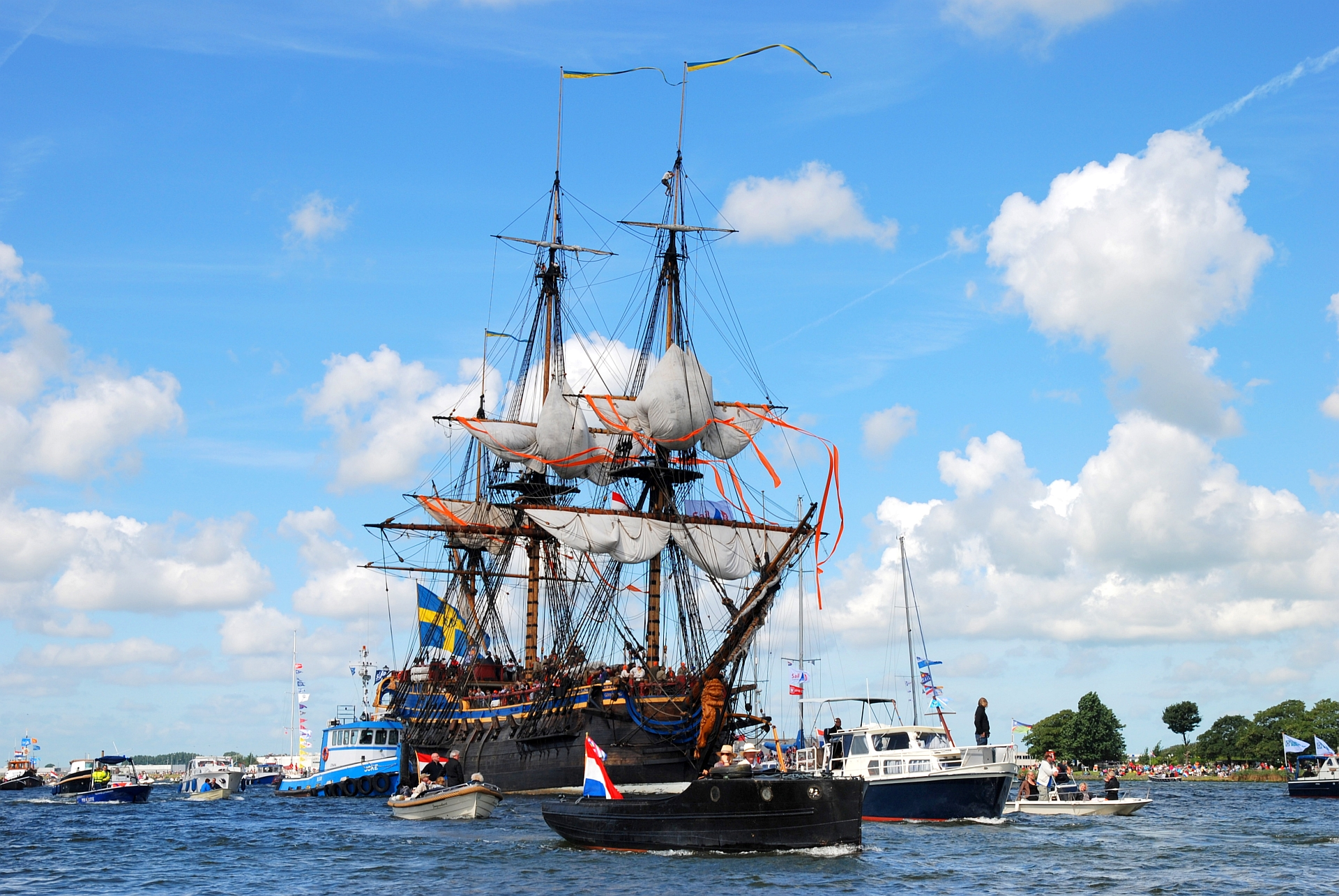 Amsterdam Sail 2010 - Gotheborg